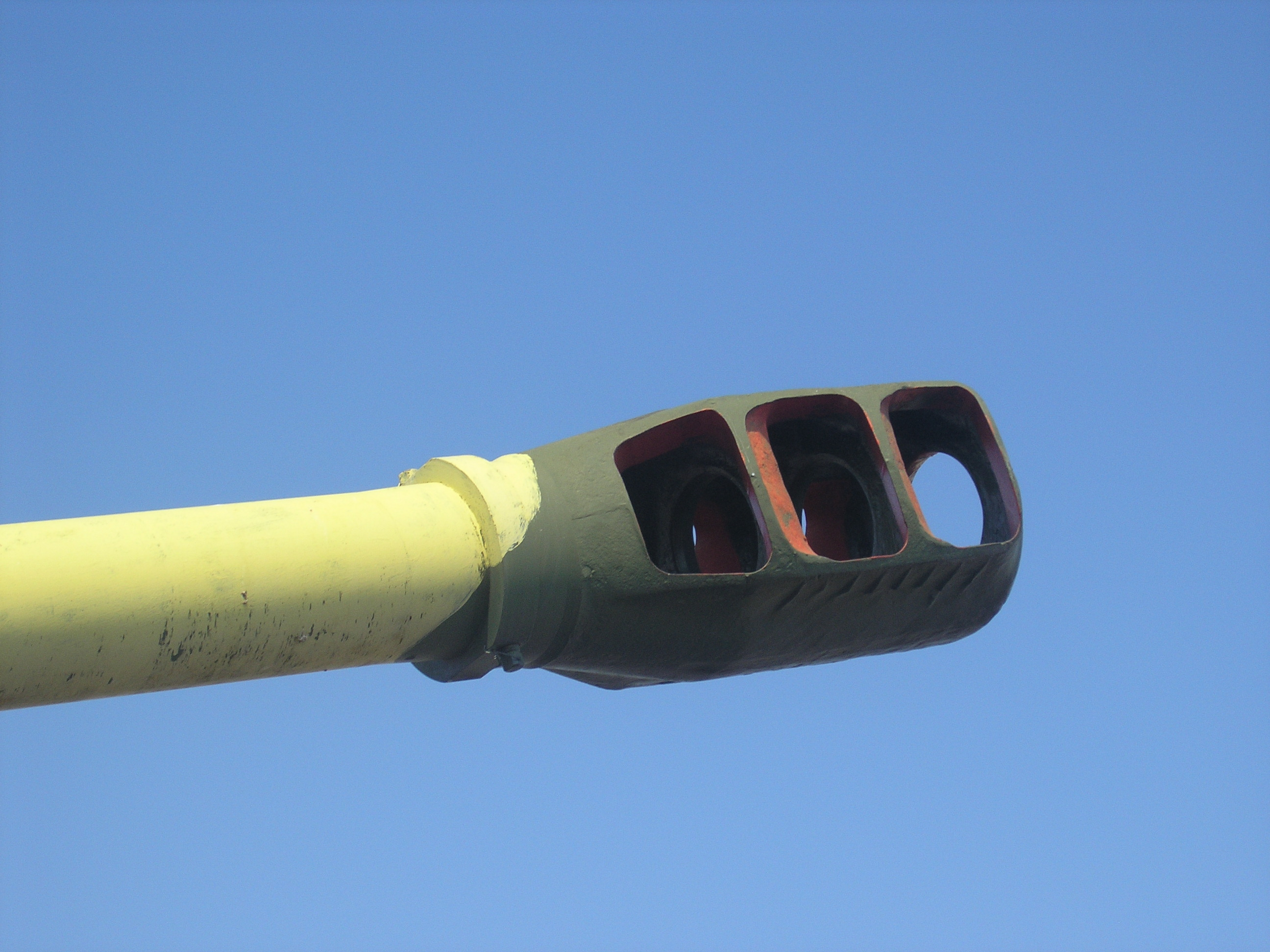 152-mm howitzer 2A65 «Msta-B» in Technical museum Togliatti